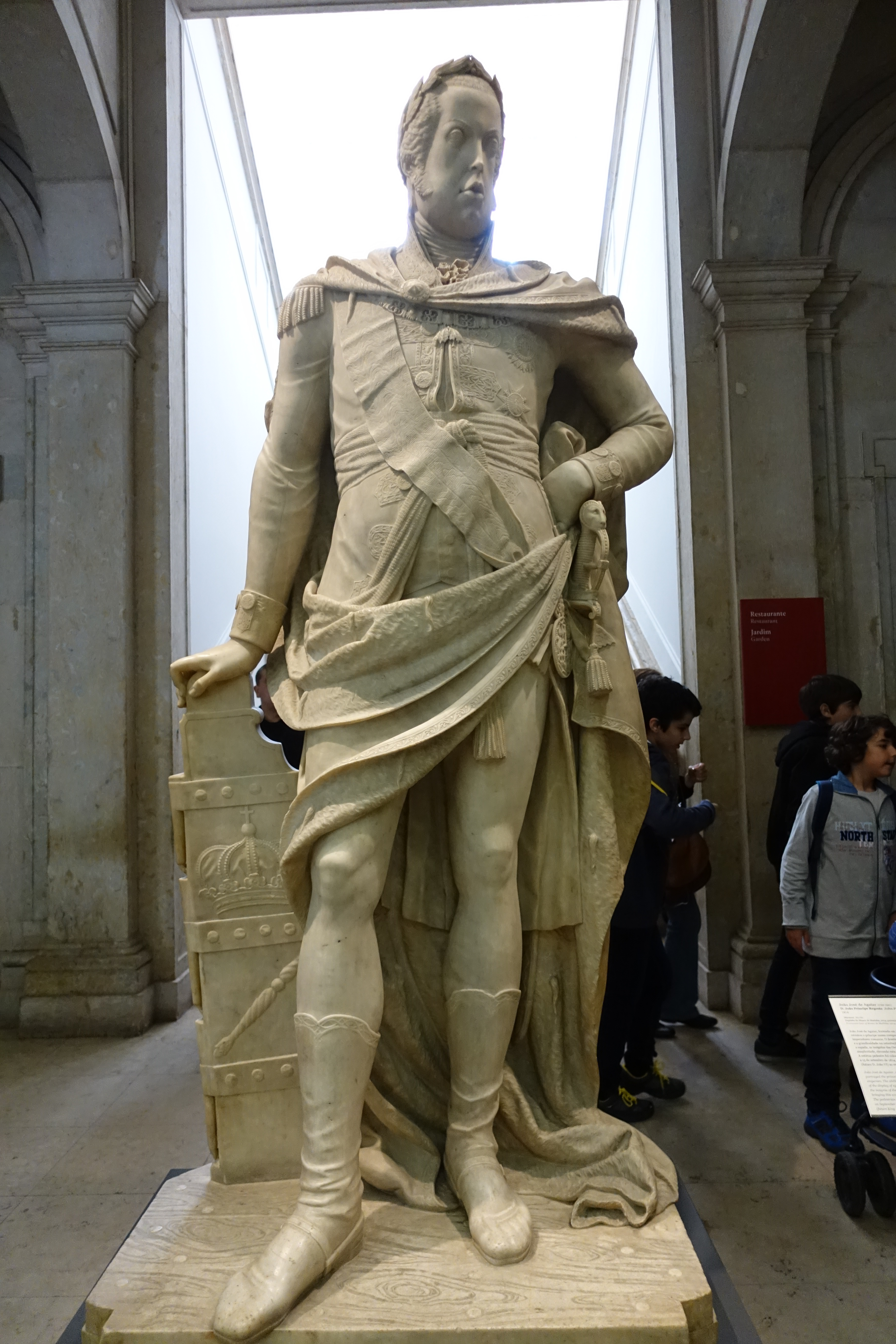 John VI of Portugal in statues in the Museu Nacional de Arte Antiga, Lisbon , Portugal.